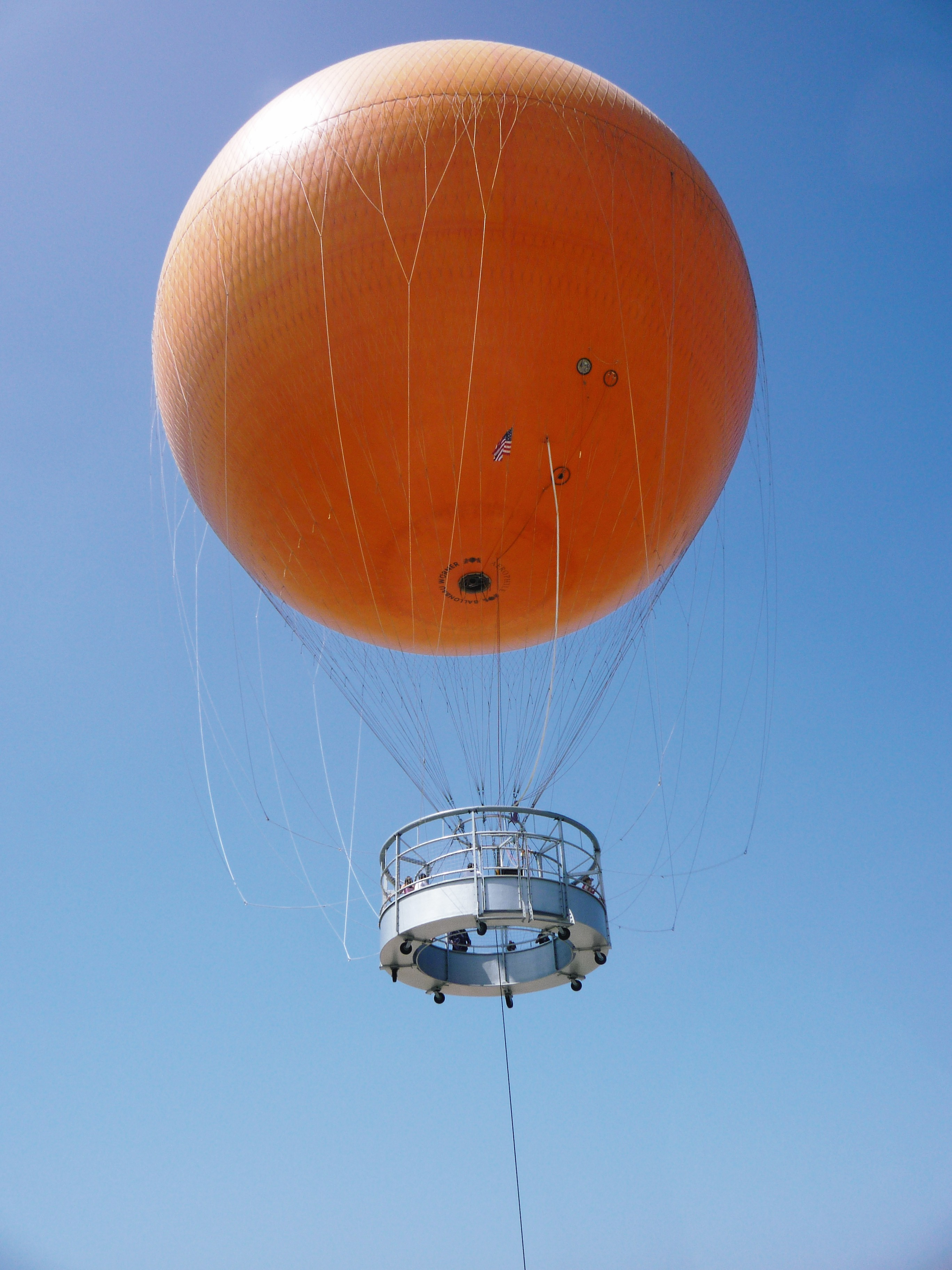 Captive balloon of Orange County Great Park in California.